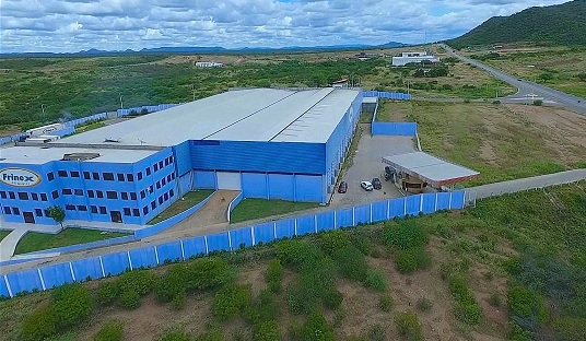 Serra Talhada,Pernambuco - Brasil.